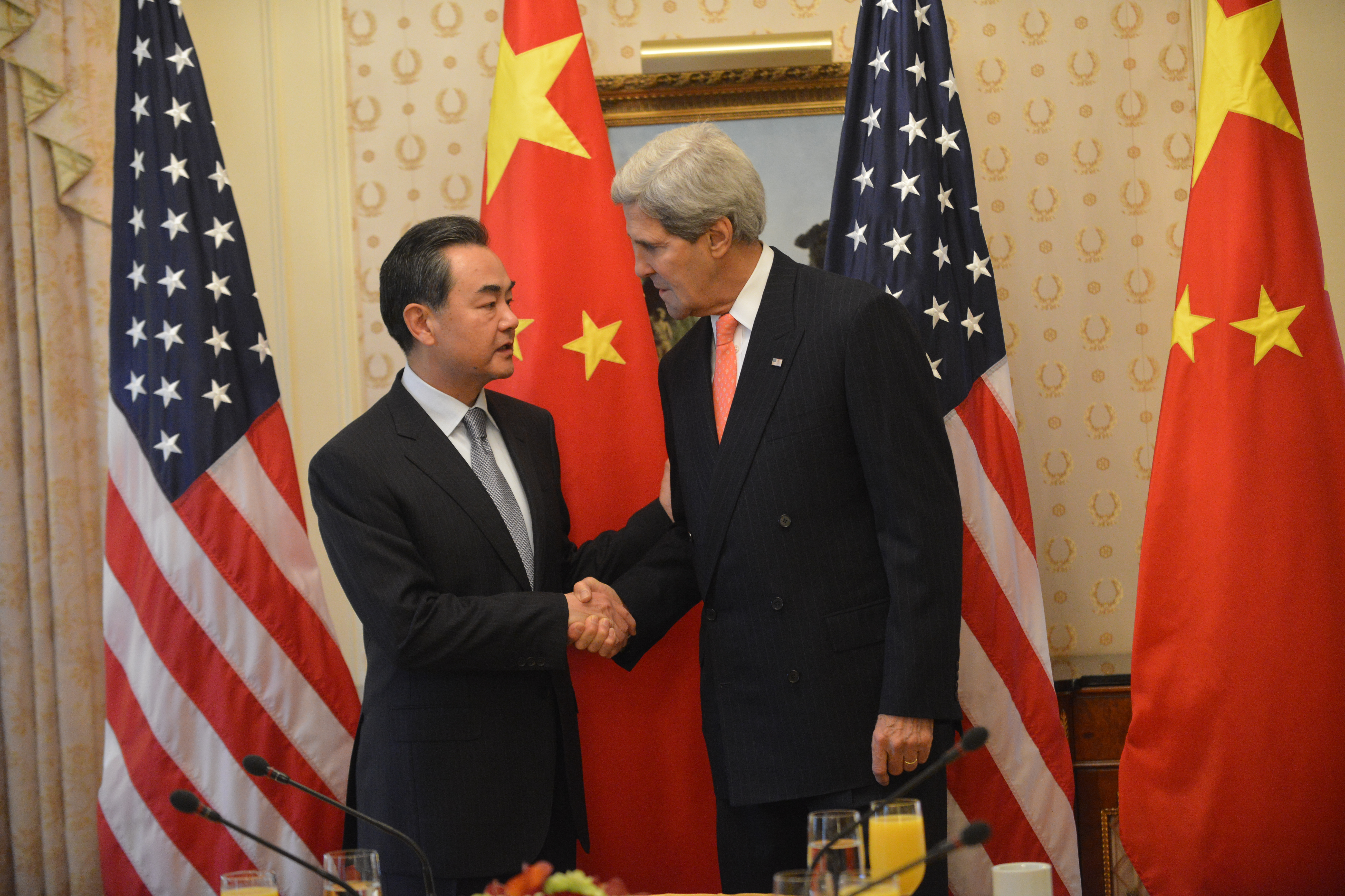 U.S. Secretary of State John Kerry meets with Chinese Foreign Minister Wang Yi in New York City on September 26, 2013. You can view a read out of Secretary Kerry's meeting with Chinese Foreign Minister Wang Yi here: [State Department photo/ Public Domain]